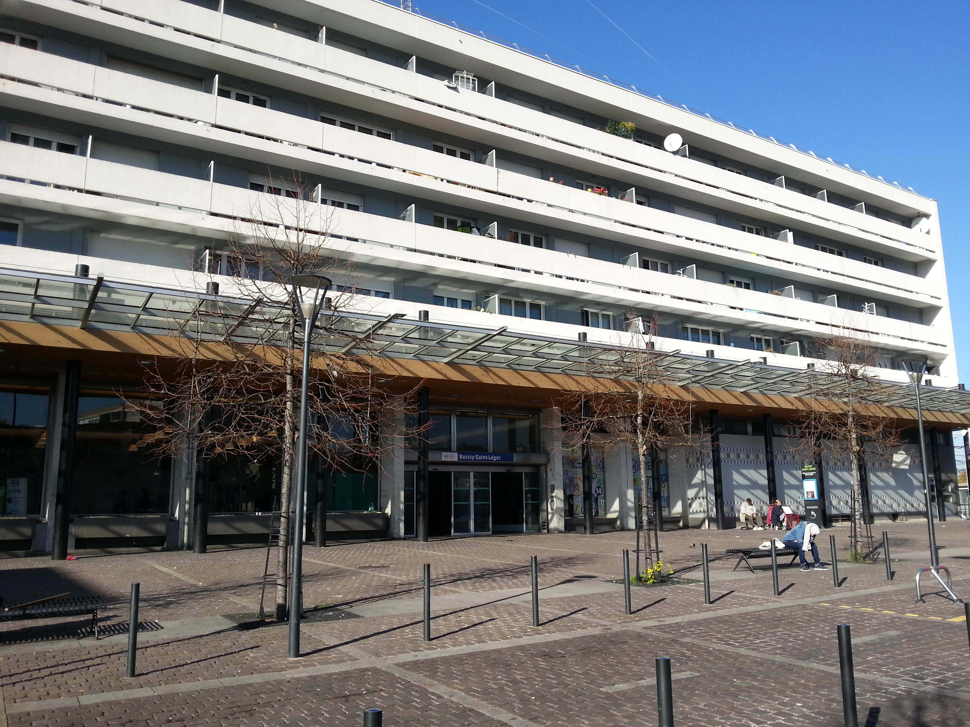 Main entrance of Boissy-Saint-Léger station